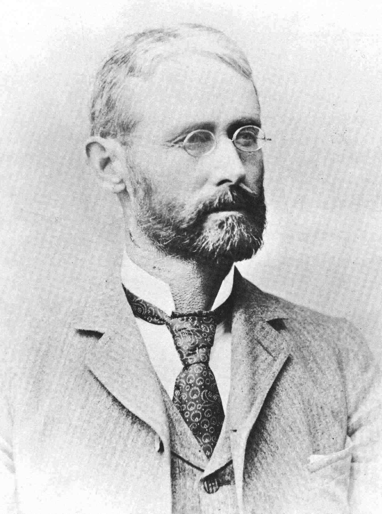 Moses A Luce, attorney, Civil War veteran, Medal of Honor recipient